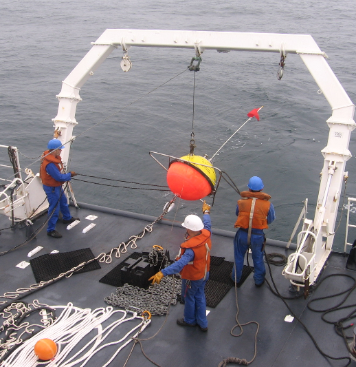 Deployment of a Datawell Waverider buoy by a SHOM ship in 2007 off the South West Coast of France. The mooring line is laid out on the deck and will be deployed after the buoy.